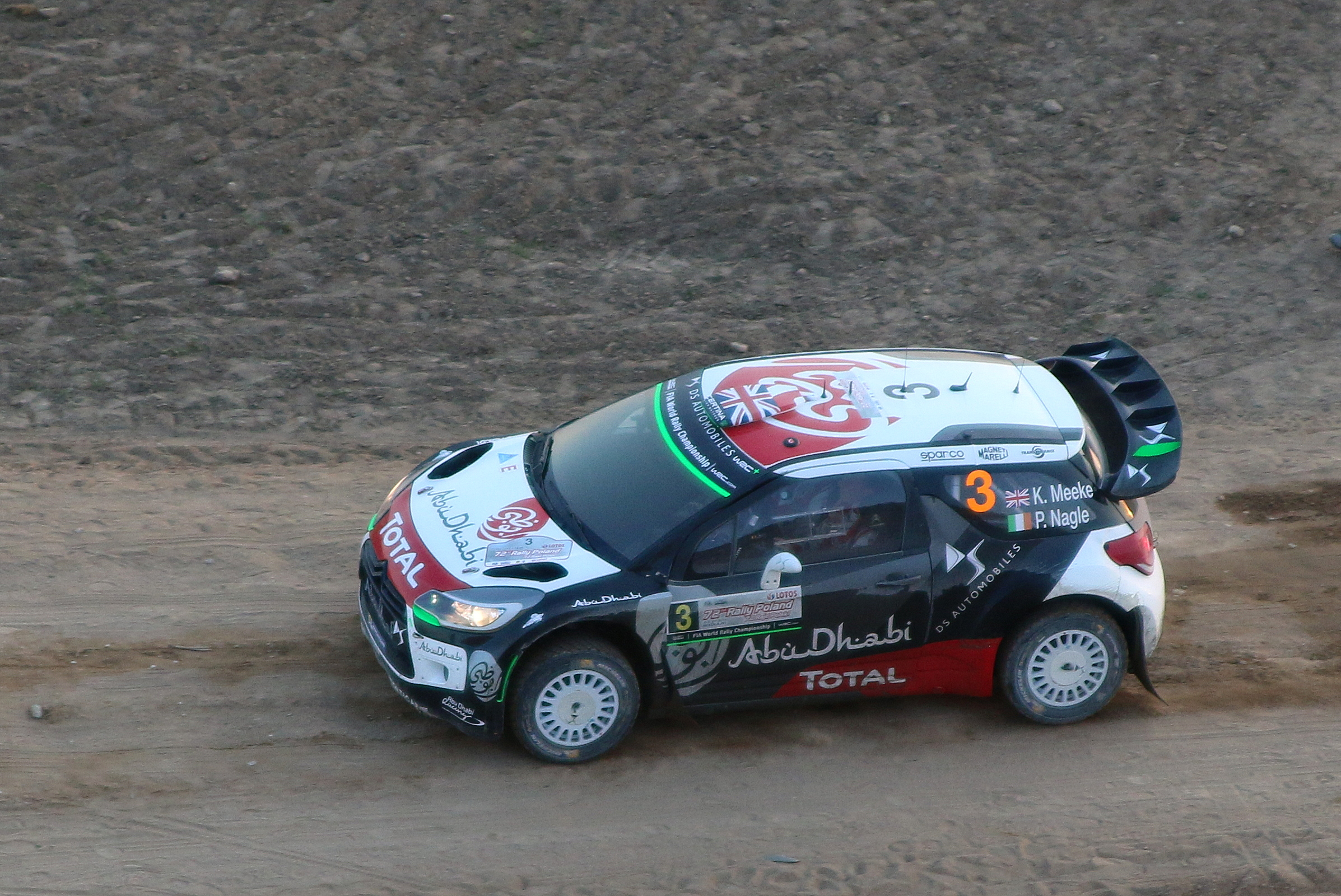 Kris Meeke after 17 OS Polish Rally 2015